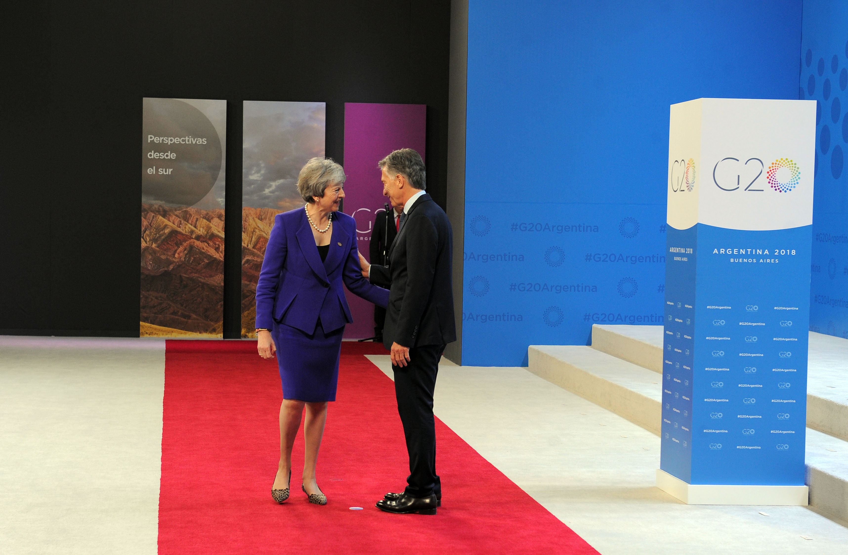 Photos of the leaders’ retreat